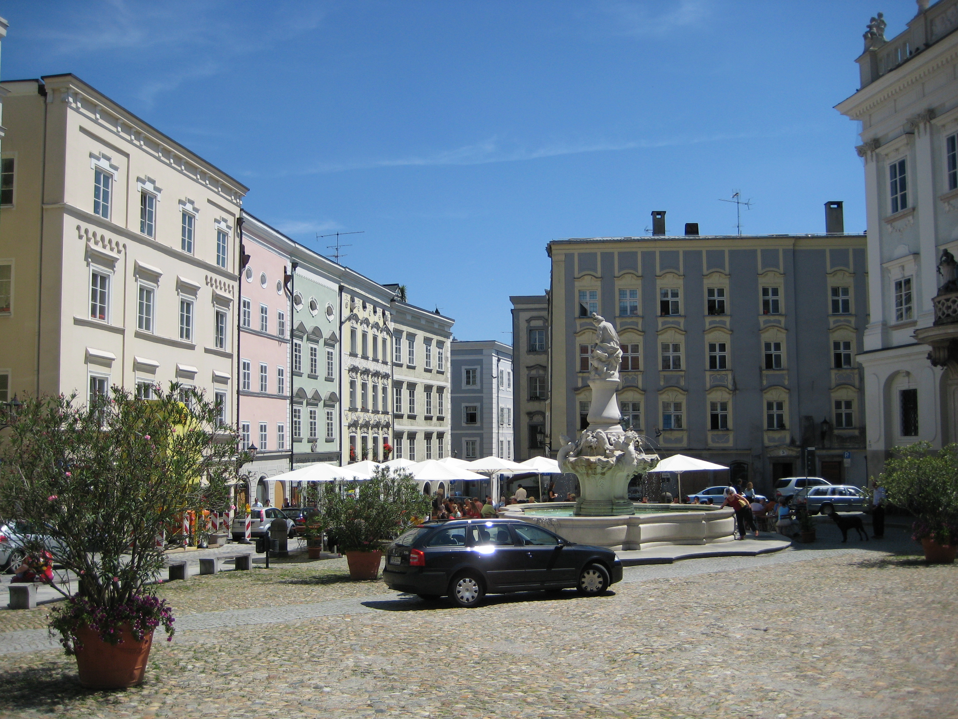 Residenzplatz, Passau